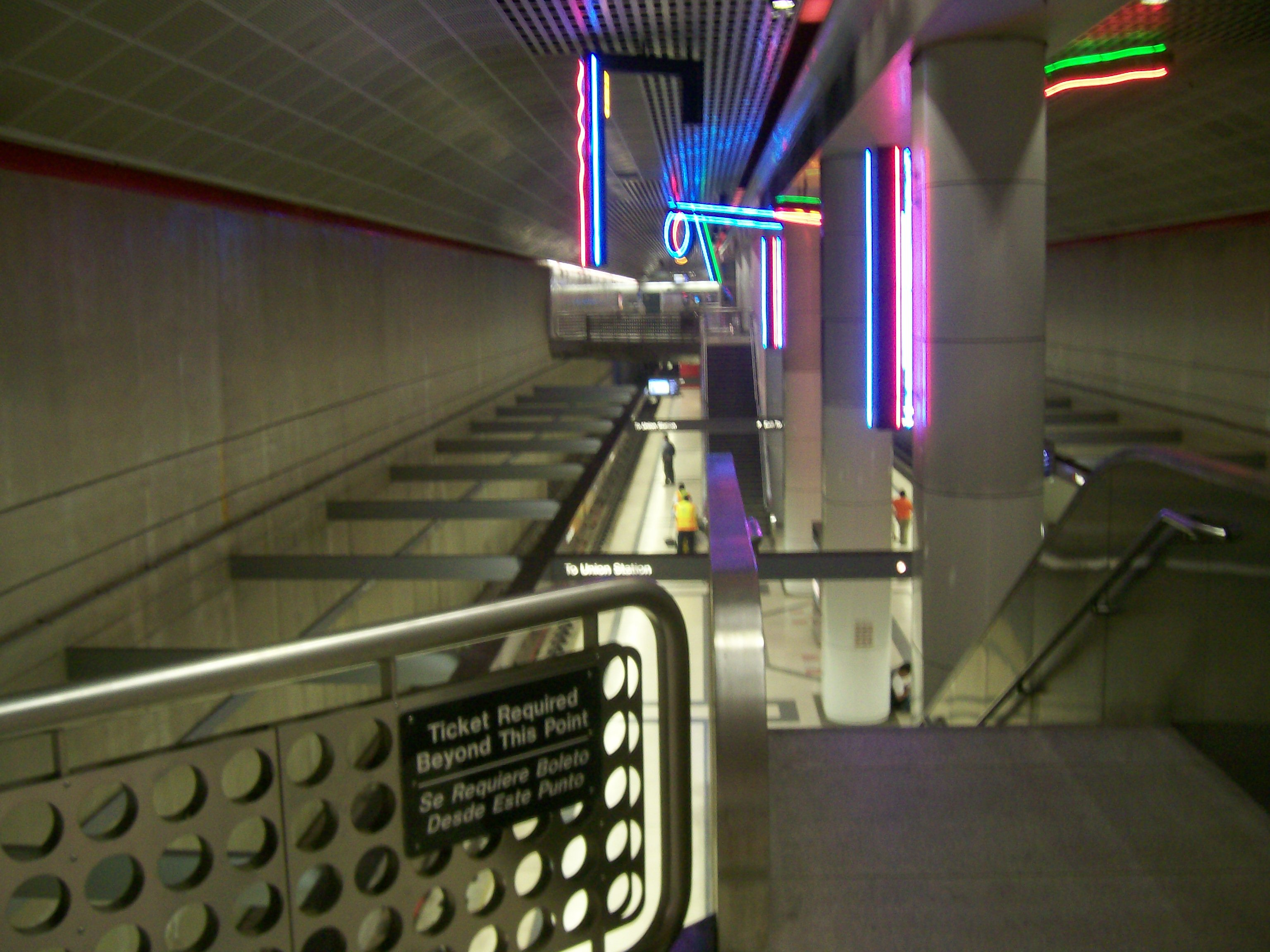 Interior shot of the Pershing Square Metro station. (As seen in Speed.)(This is not the staircase Keanu Reeves raced down to board the subway train, it was actually the other side of the station. This side leads to Union, whereas in the movie he was bound for Hollywood...on the other side. Looks similar enough though.)